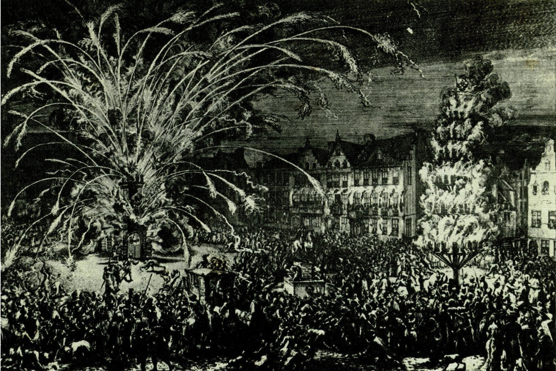 Fireworks in Brussel 1686 in commemoration of the liberation of Hungary ( Siege of Buda )